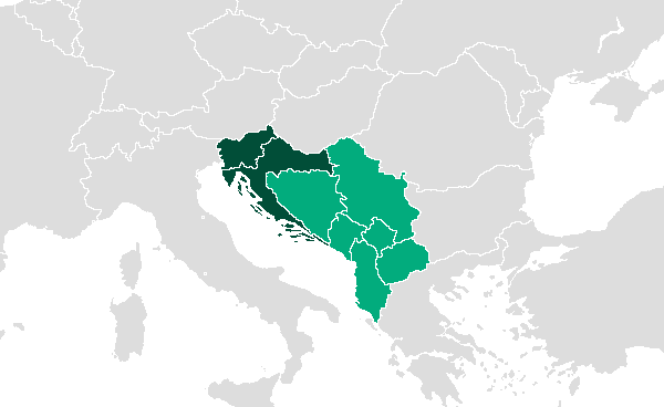 Brdo-brijuni process map